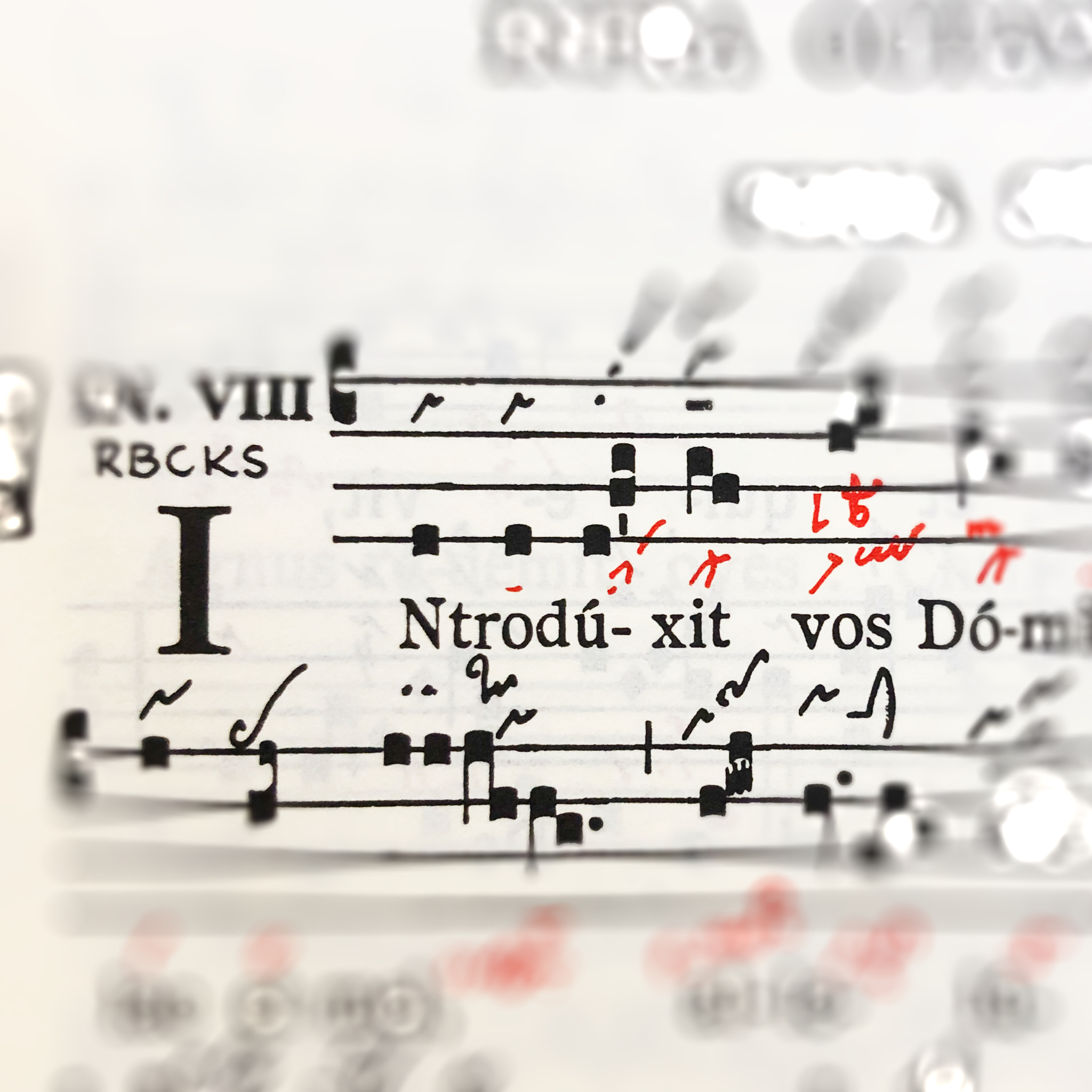 Incipit of Itroduxit vos